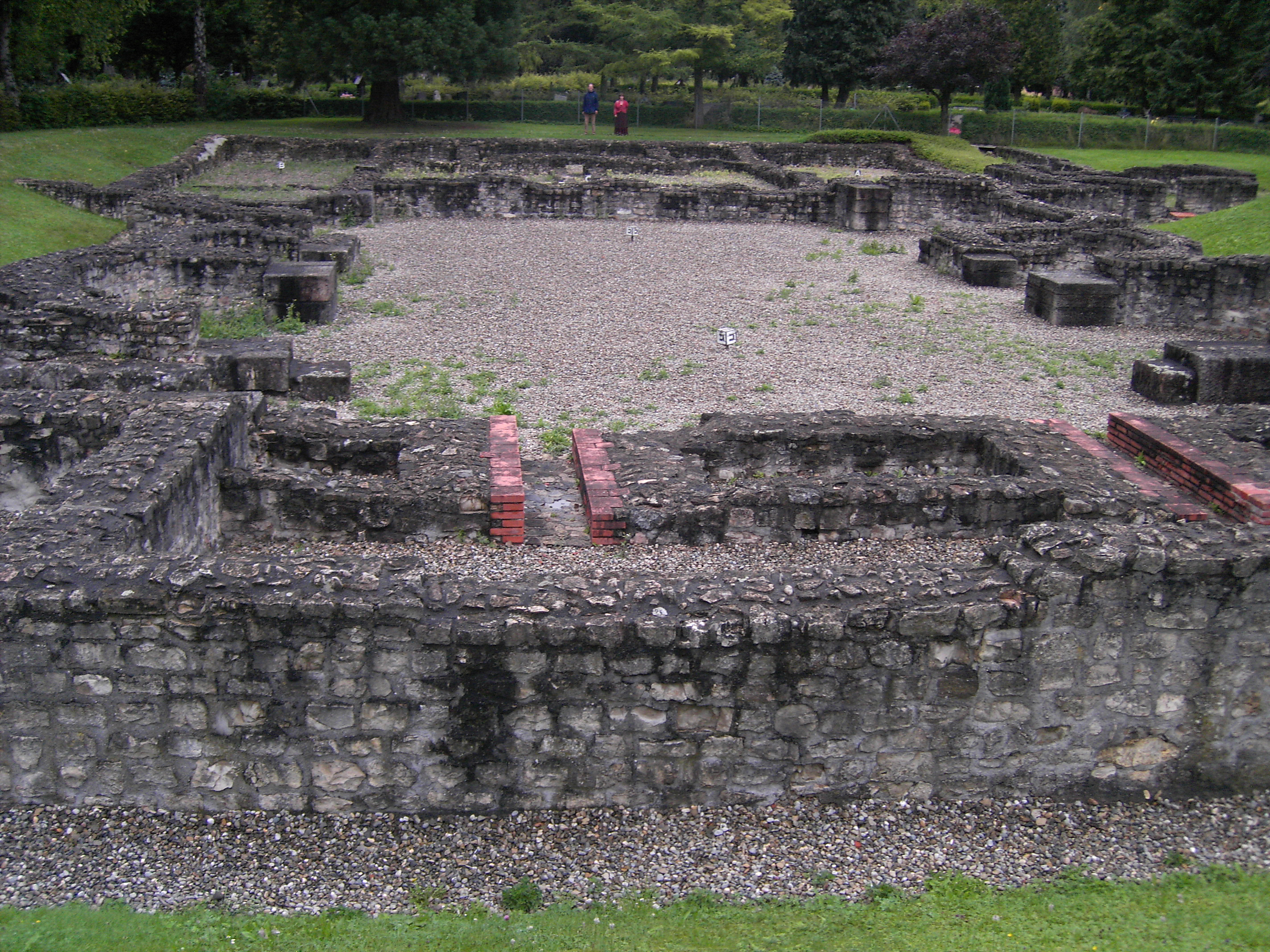 Roman Baths in Arae Flaviae (Rottweil / Baden-Württemberg / Germany)